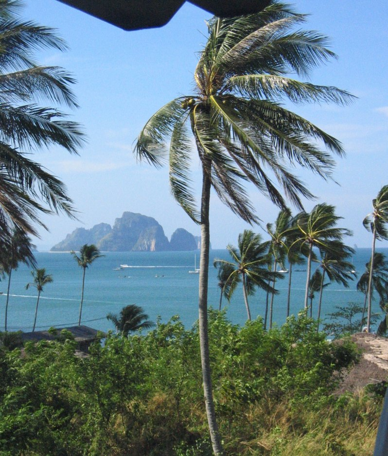 Ao Nang, Thailand - view west over palm trees and Indian Ocean - from hotel balcony. Chicken Island and Poda Island in the distance.